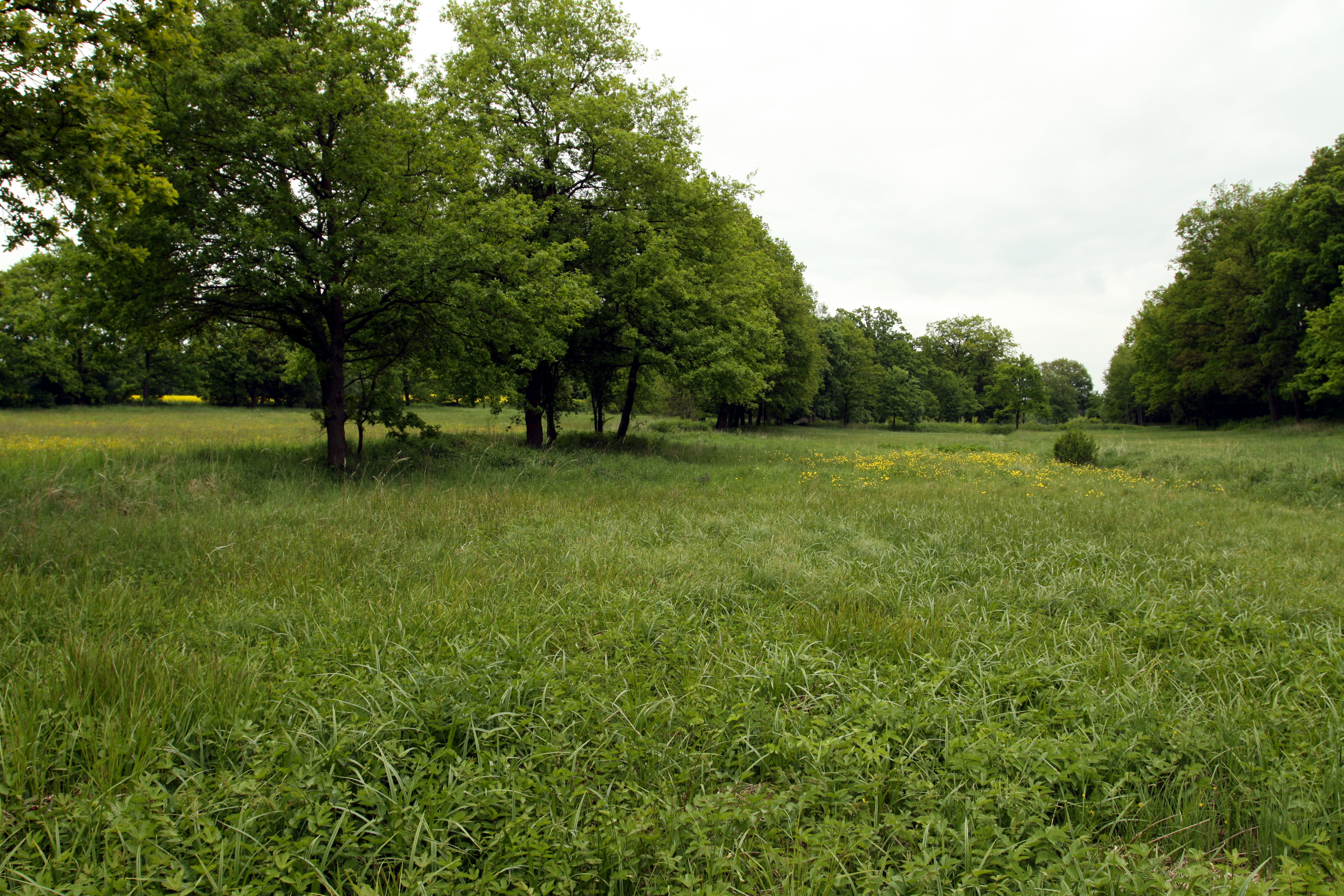 Natural monument Kopáčovská near Čimelice, Písek District, Czech Republic - Google Maps - Google Earth